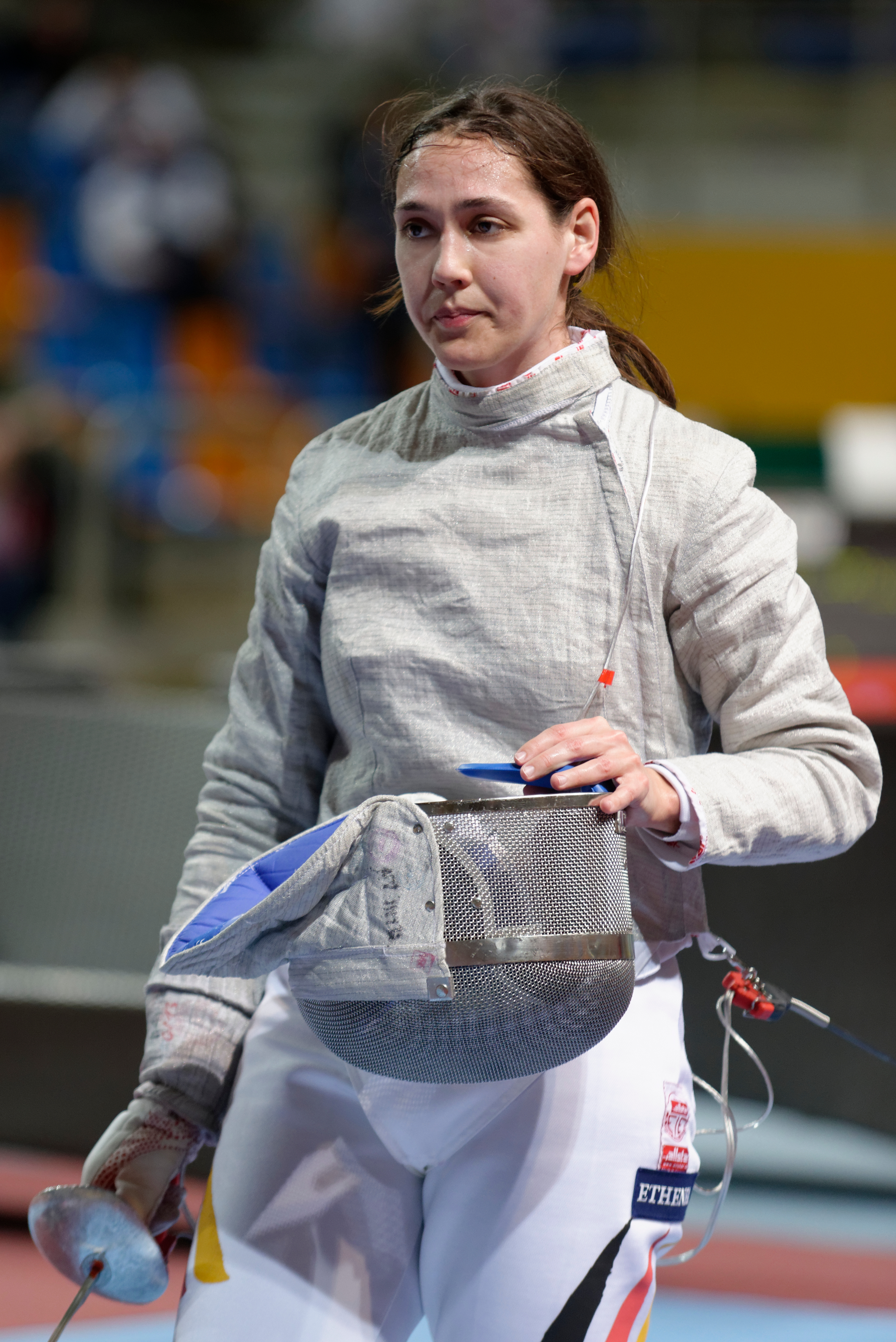 Sibylle Klemm of Germany at the Trophée BNP Paribas-Grand Prix FIE, first stage of the women's sabre World Cup, in Orléans.